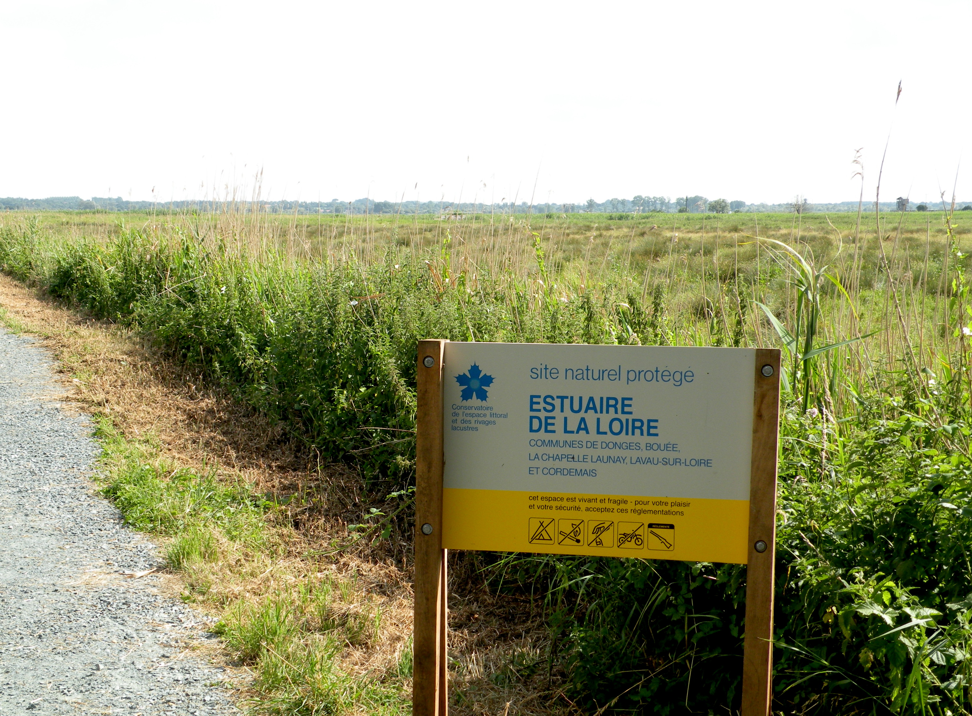 Marsh of the Loire River estuary in Lavau-sur-Loire, property of the Conservatoire du littoral.